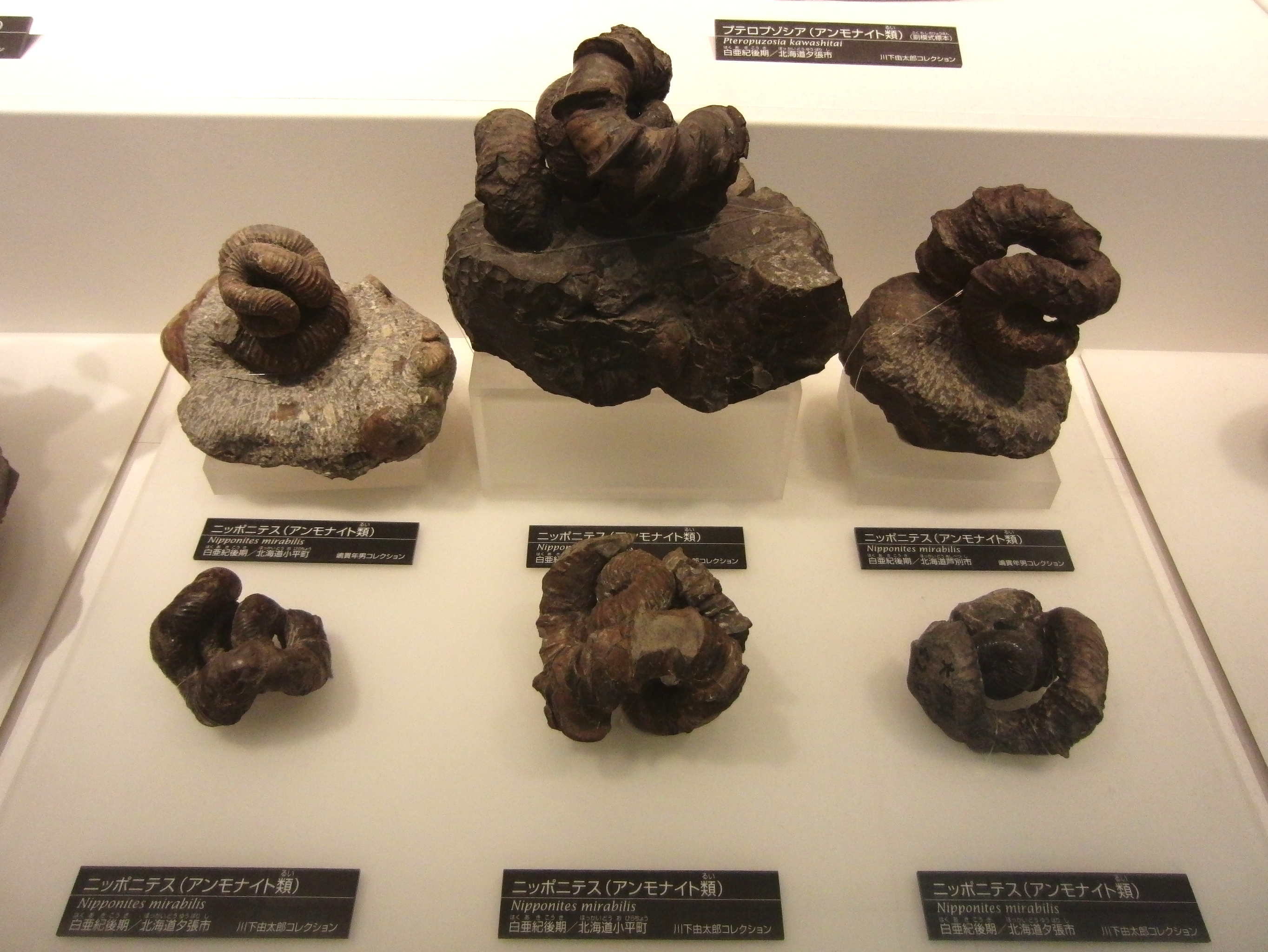 Fossils of Nipponites (Nipponites mirabilis), Ammonites. Exhibit in the National Museum of Nature and Science, Tokyo, Japan.